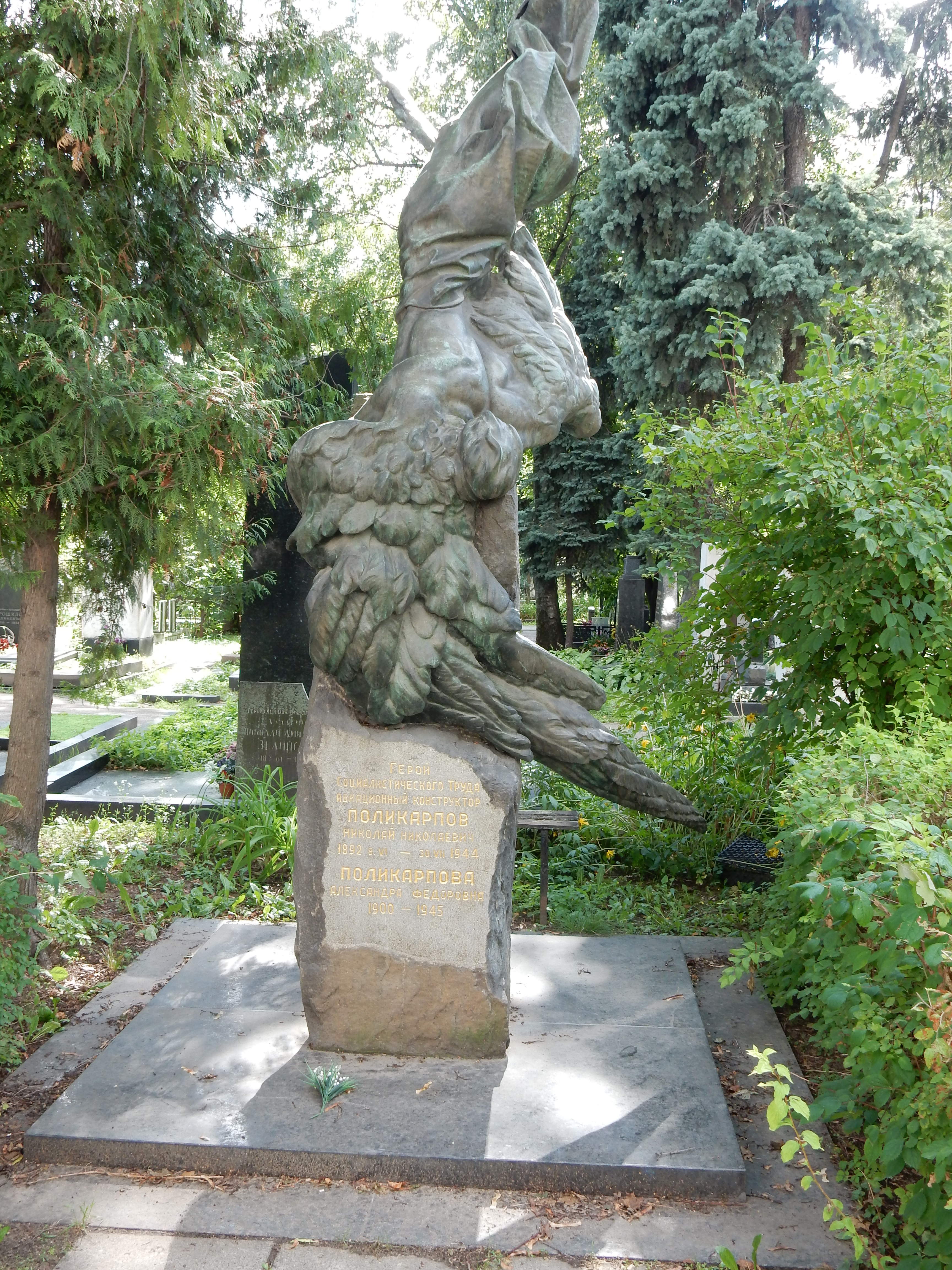 Grave of Nikolai Nikolaevich Polikarpov at Novodevichy-Cemetery, Moscow